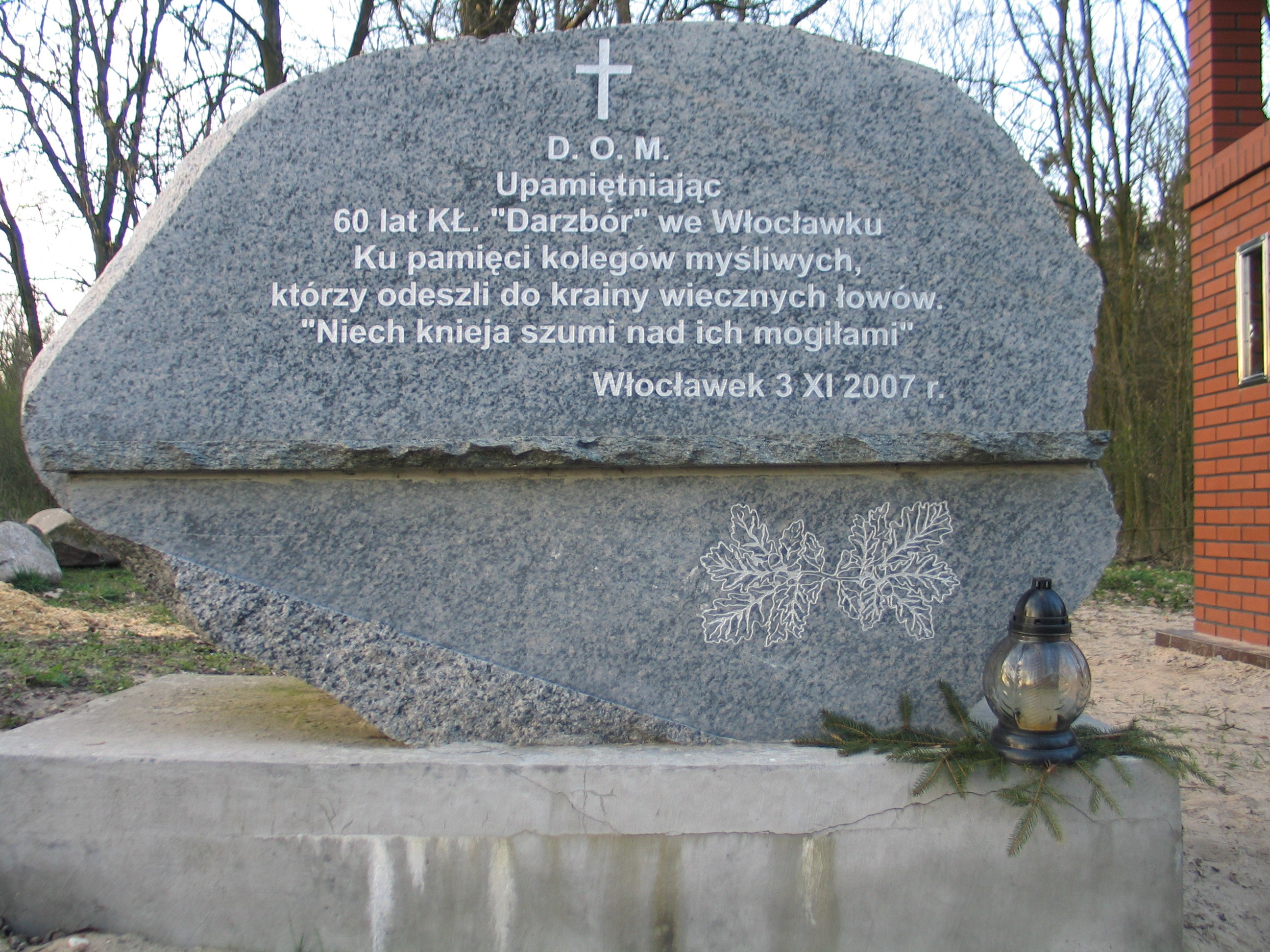 Lipiny forester's lodge – the monument